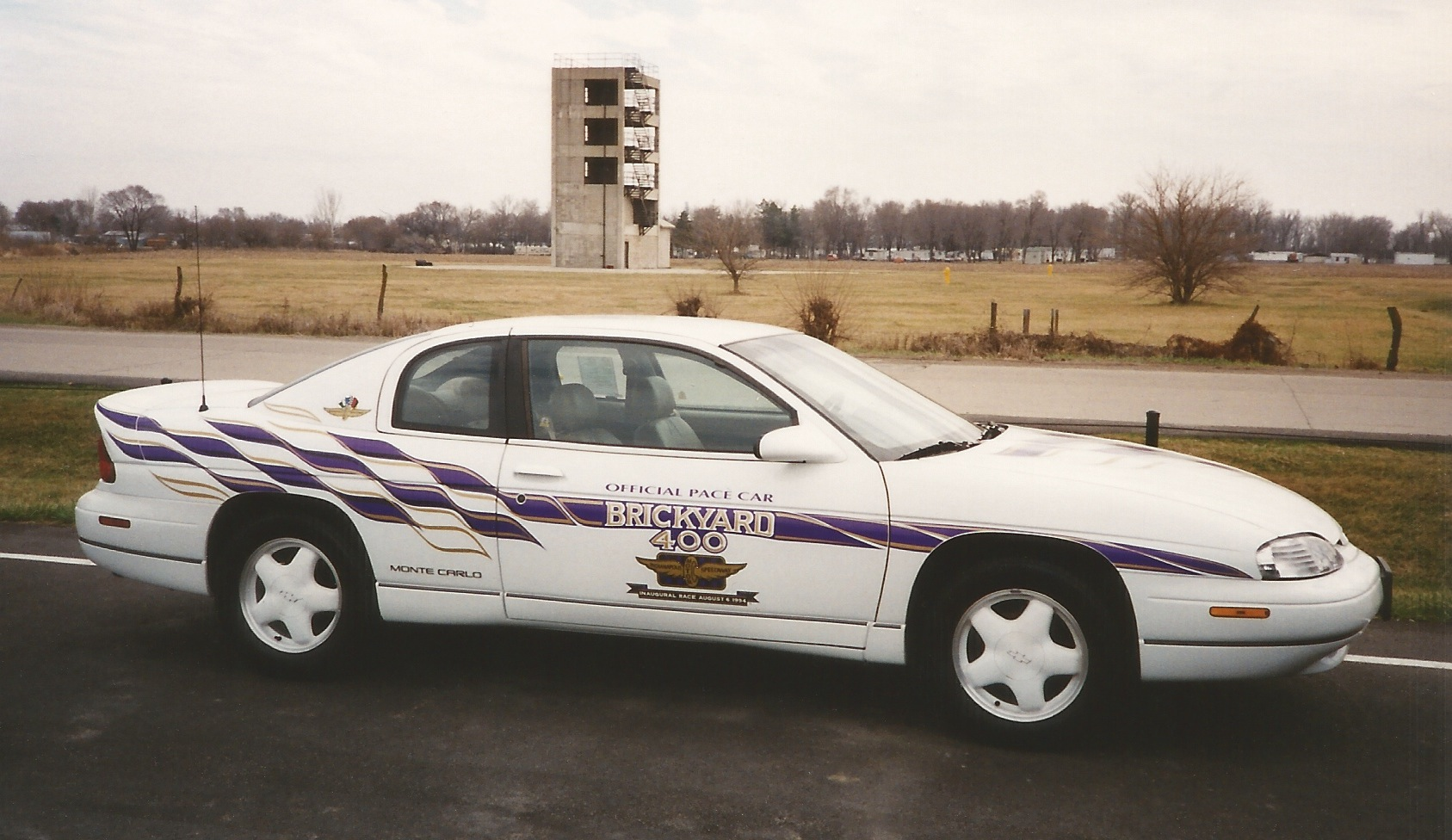 A 1995 Chevrolet Monte Carlo Z34 in Brickyard 400 Official Pace Car livery.